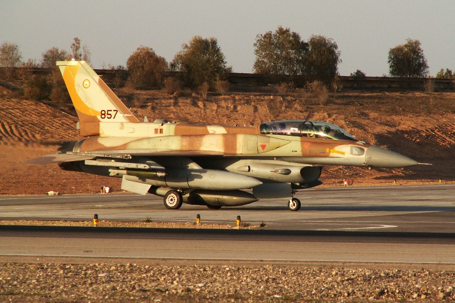 IAF F-16I Sufa of the 107th Squadron ("The Knights of the Orange Tail Squadron") preparing for take-off during Operation Cast Lead.